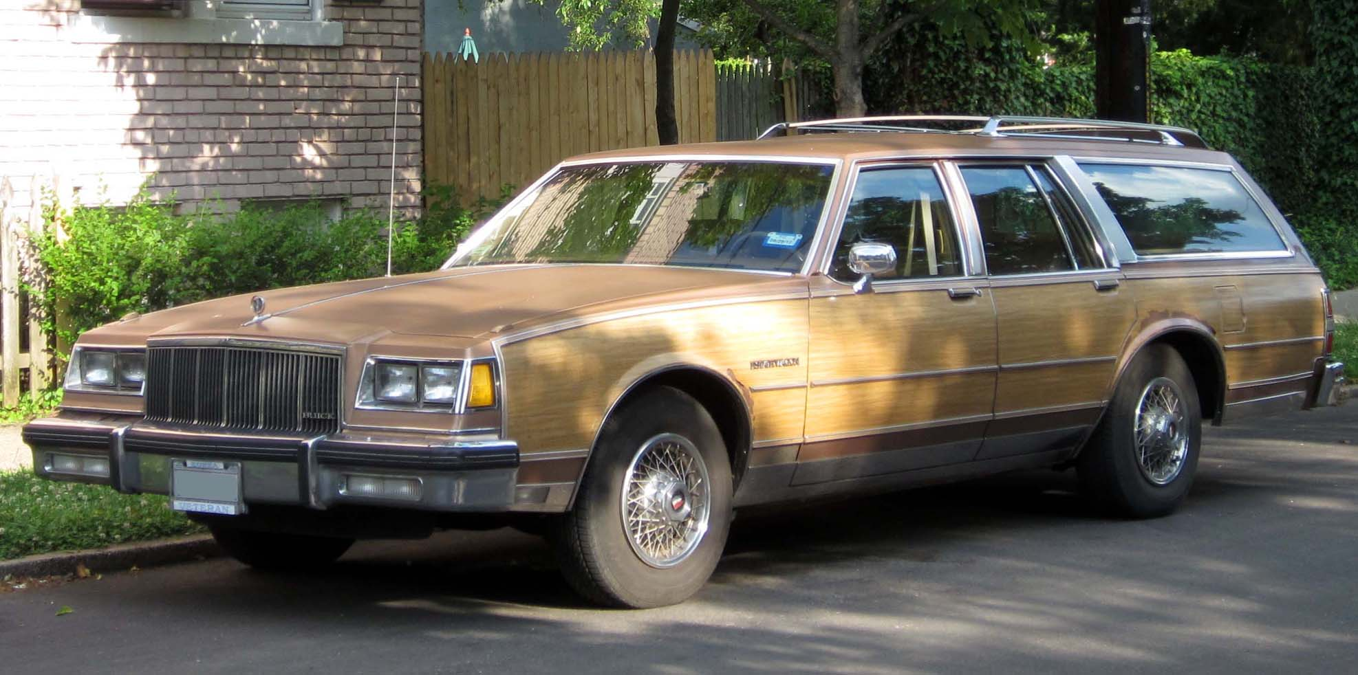 Buick Estate Wagon photographed in Washington, D.C., USA.